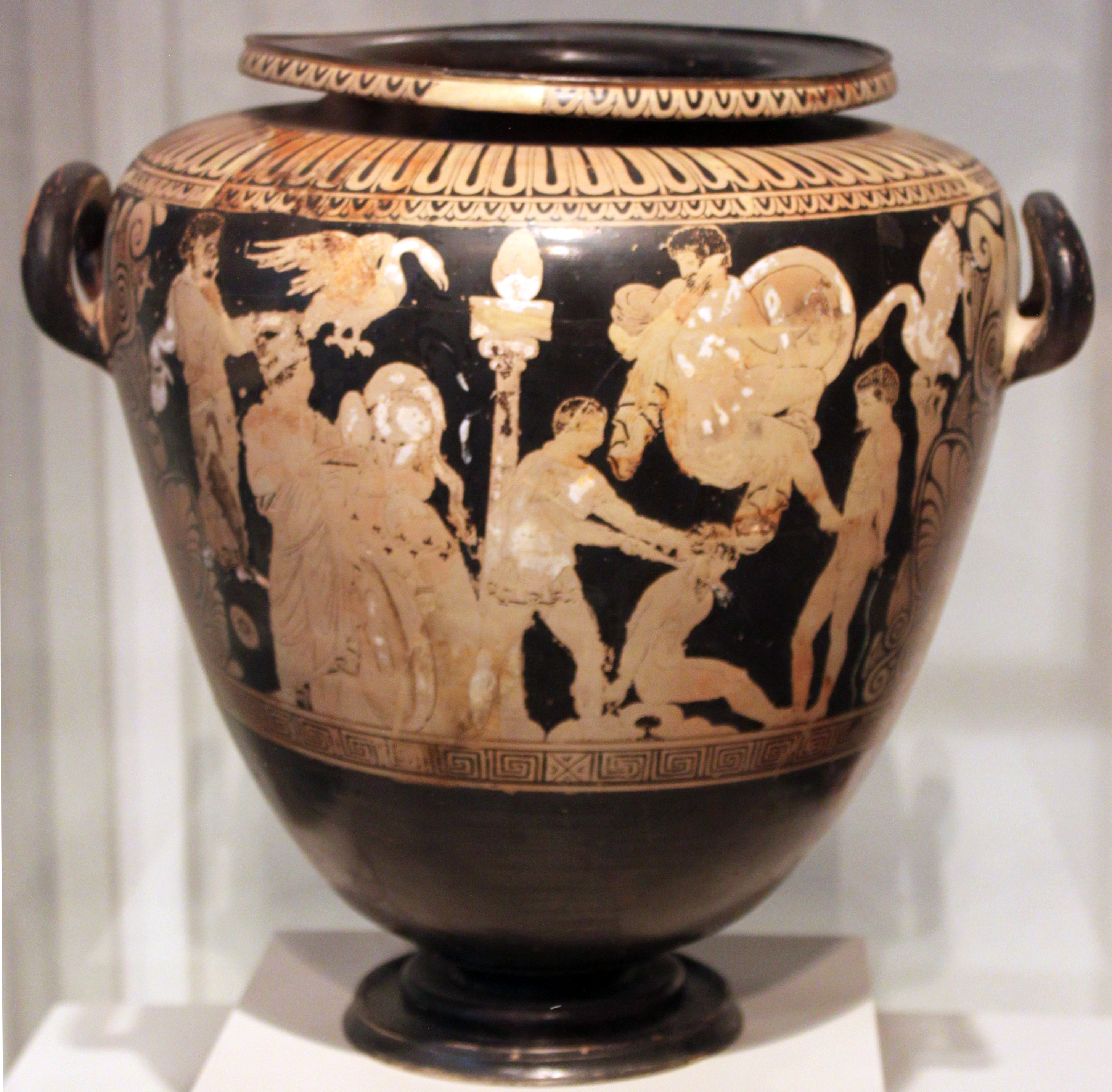 Faliscan Red-Figure Stamnos: Sacrificing of Captured Trojans; Sovana (Italy); 4th century BC Altes Museum Native nameAltes MuseumParent institutionBerlin State MuseumsLocationBerlinCoordinates52° 31′ 10″ N, 13° 23′ 54″ E Established1828Web page control : Q156722 VIAF: 202689698 ISNI: 0000 0001 0940 5889 LCCN: n83197241 GND: 4506837-9 WorldCat institution QS:P195,Q156722 Section: Life and Death in Rome, V.I. 5825